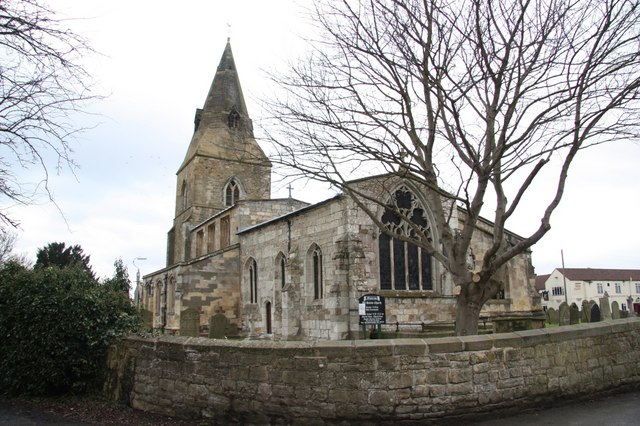 All Saints' Church